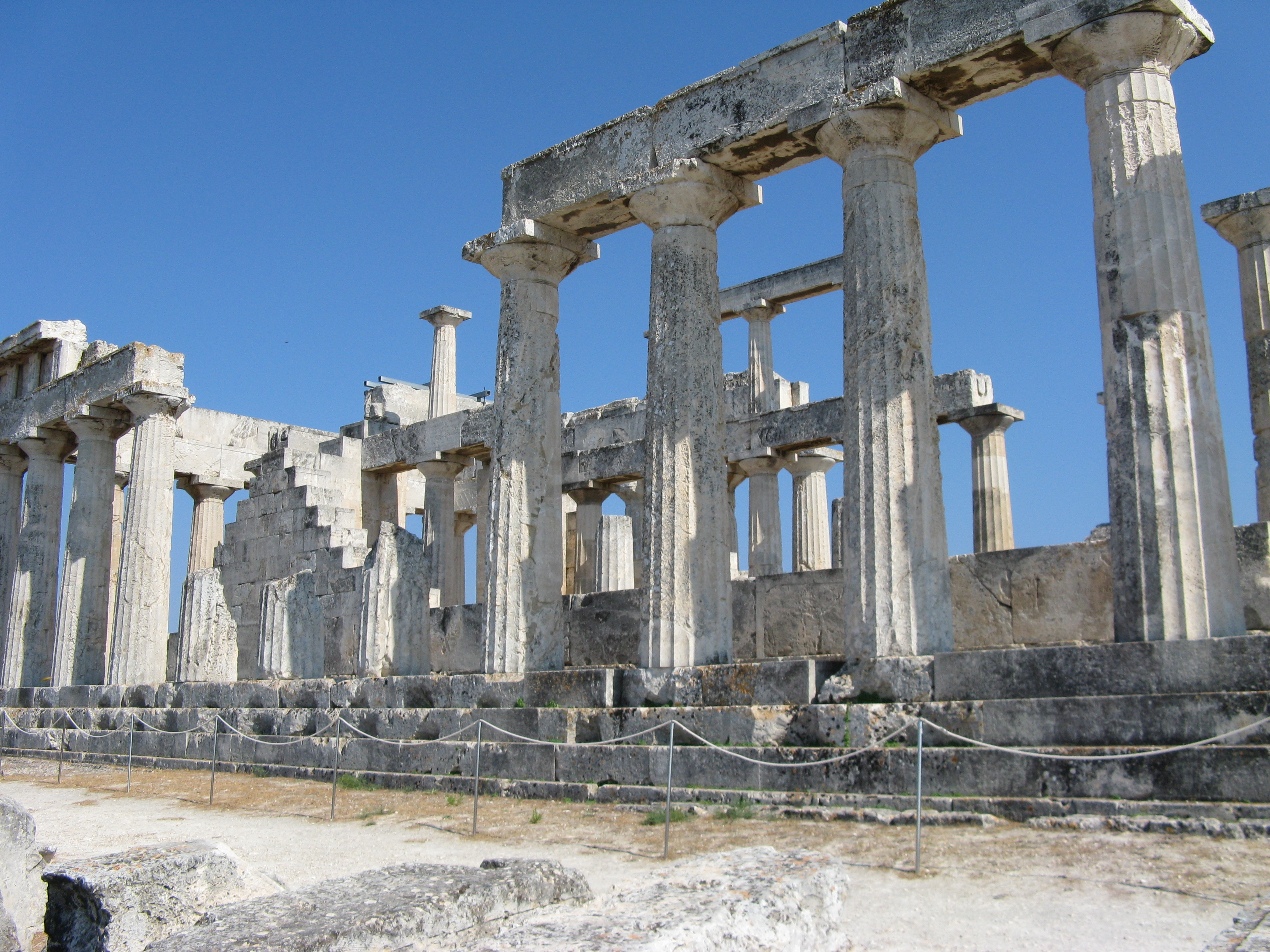 Temple of Aphaea, Aegina island, Greece.